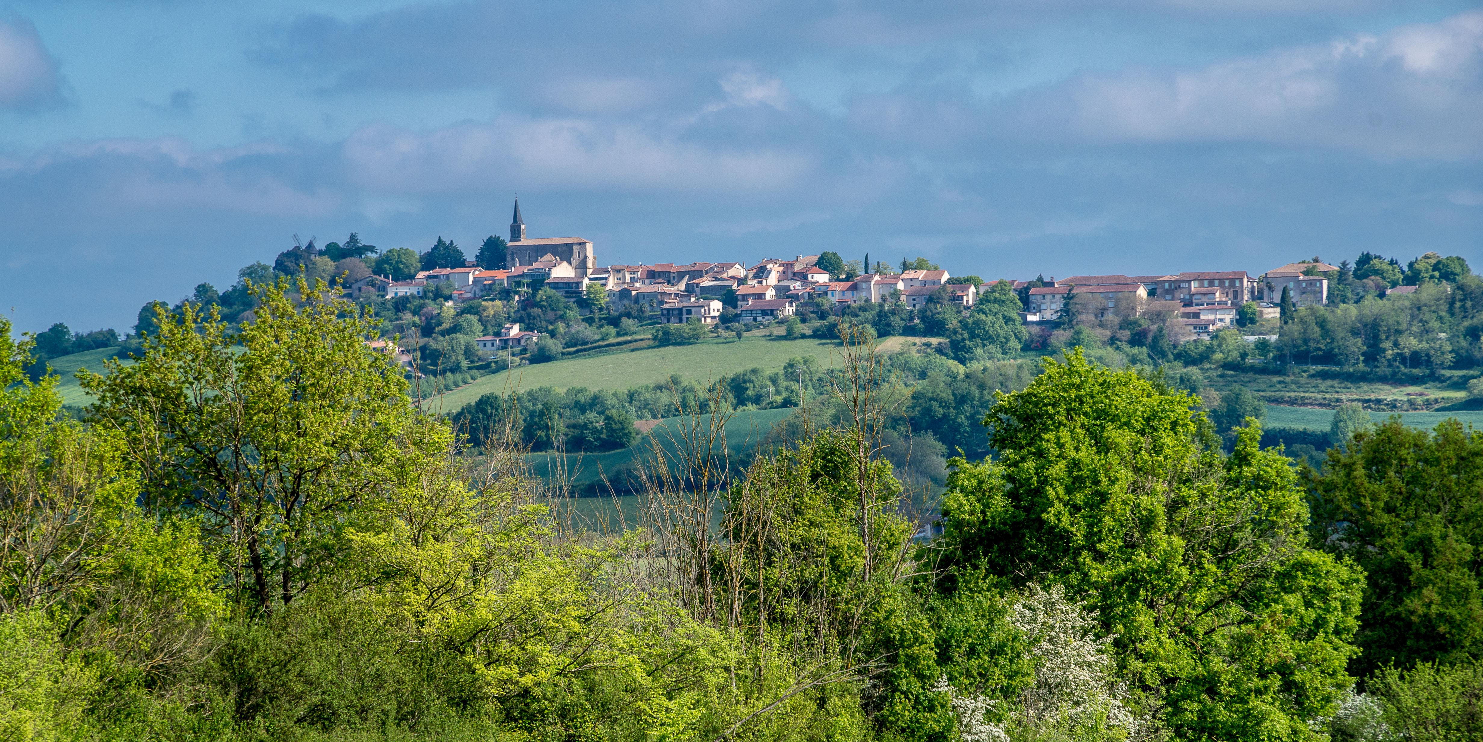 A view of Montpezat-d'Agenais, from the Domaine de Pagnagues